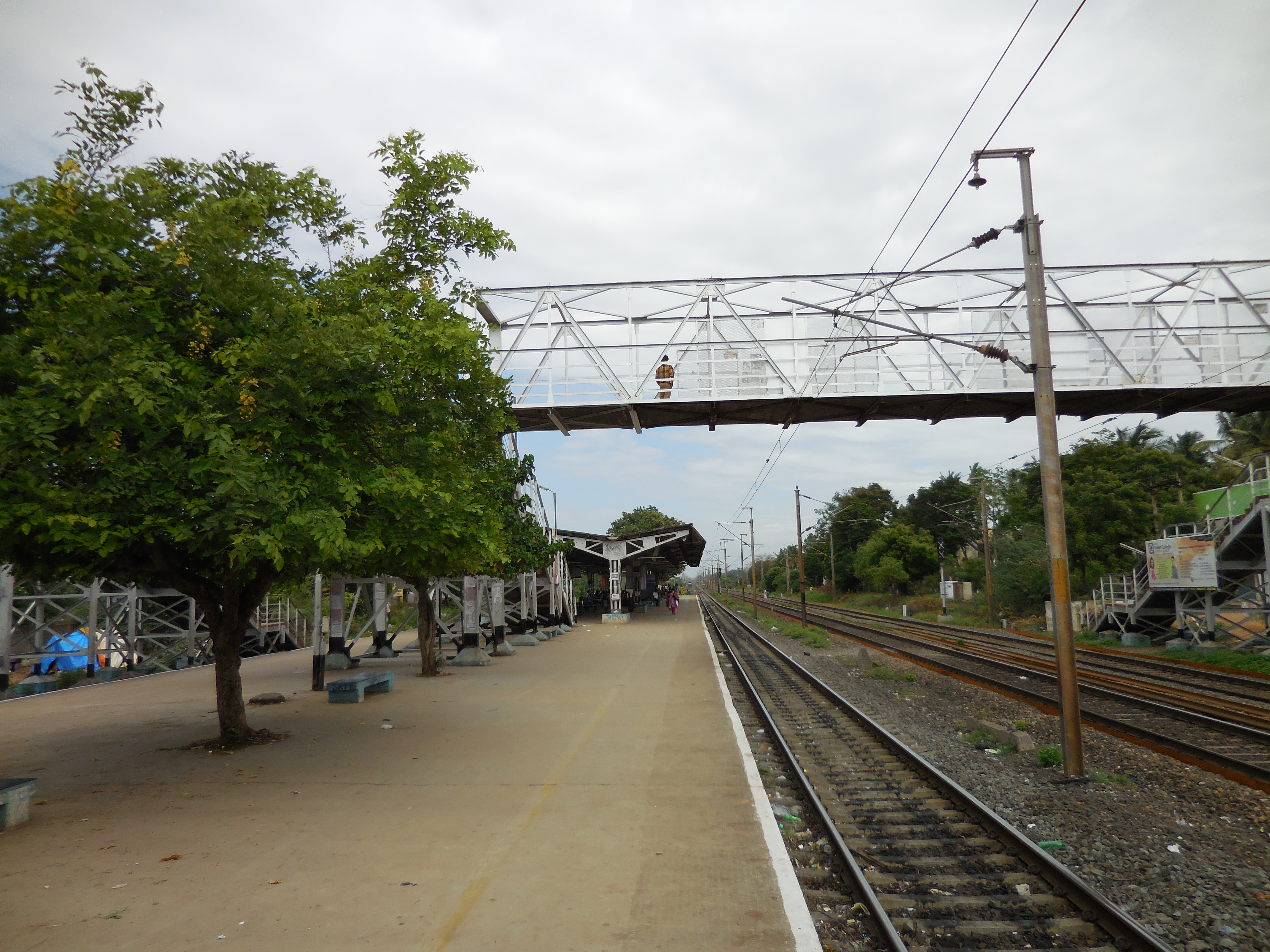 A view of foot overbridge at Thirumullaivoyal Station, Chennai, towards west, taken on 15 July 2014 at noon.